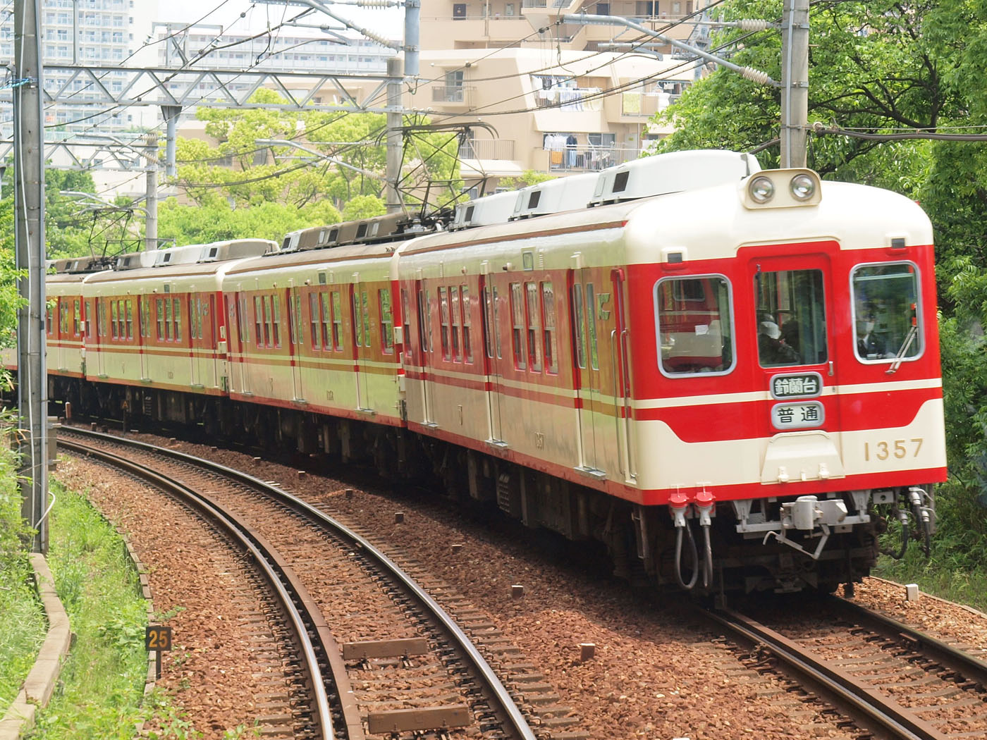 Shintetsu 1350 series EMU